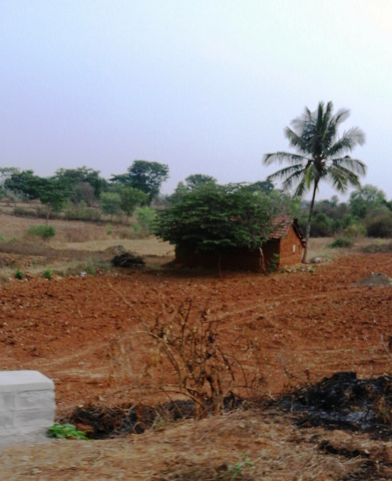 Mananthavady Road, Mysore district, Karnataka province, India.